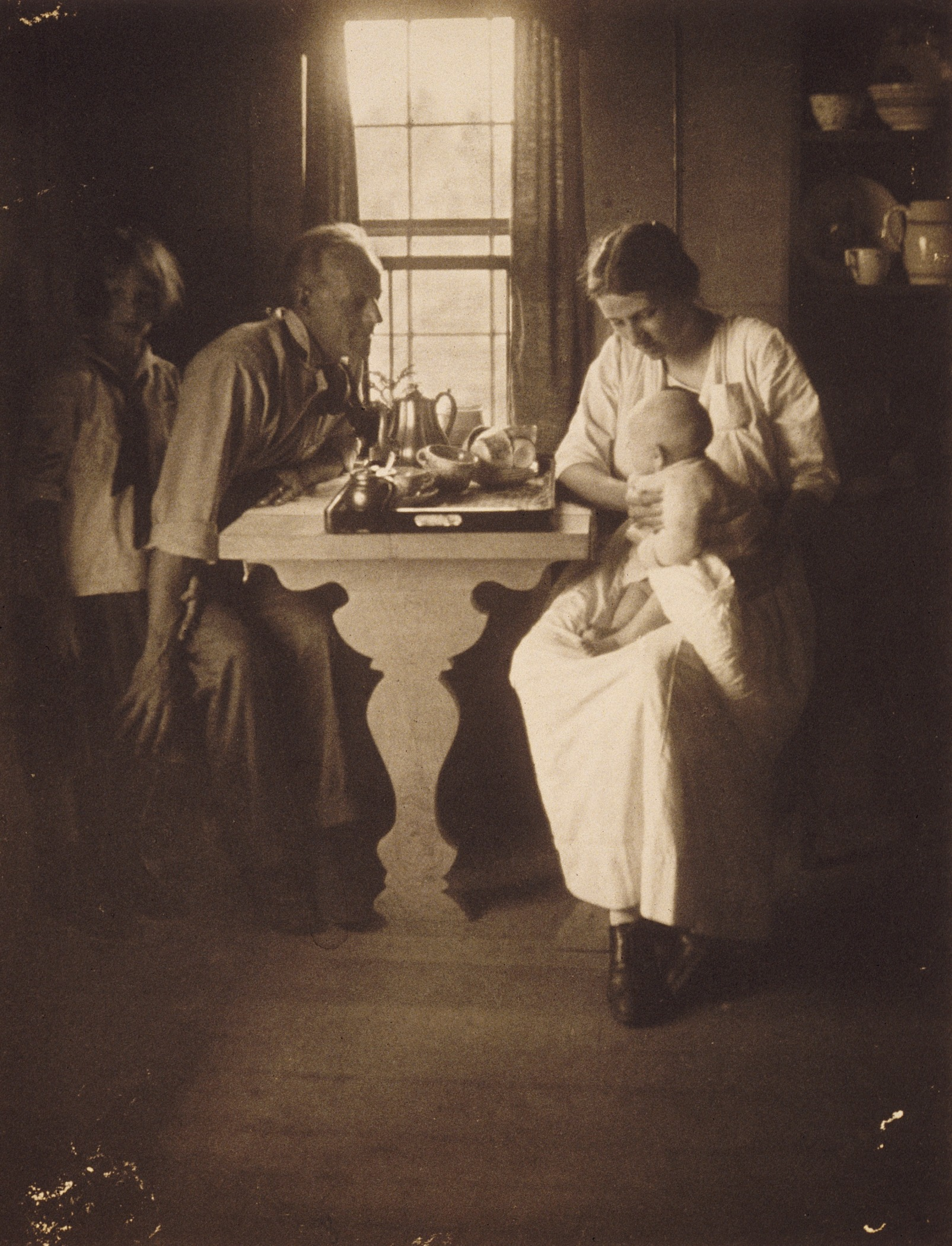 United States, circa 1905 Photographs Platinum-palladium print Anonymous gift in honor of Dr. Albert Cahn and in memory of Mina Turner, granddaughter of Gertrude Käsebier (M.77.168.3) Photography